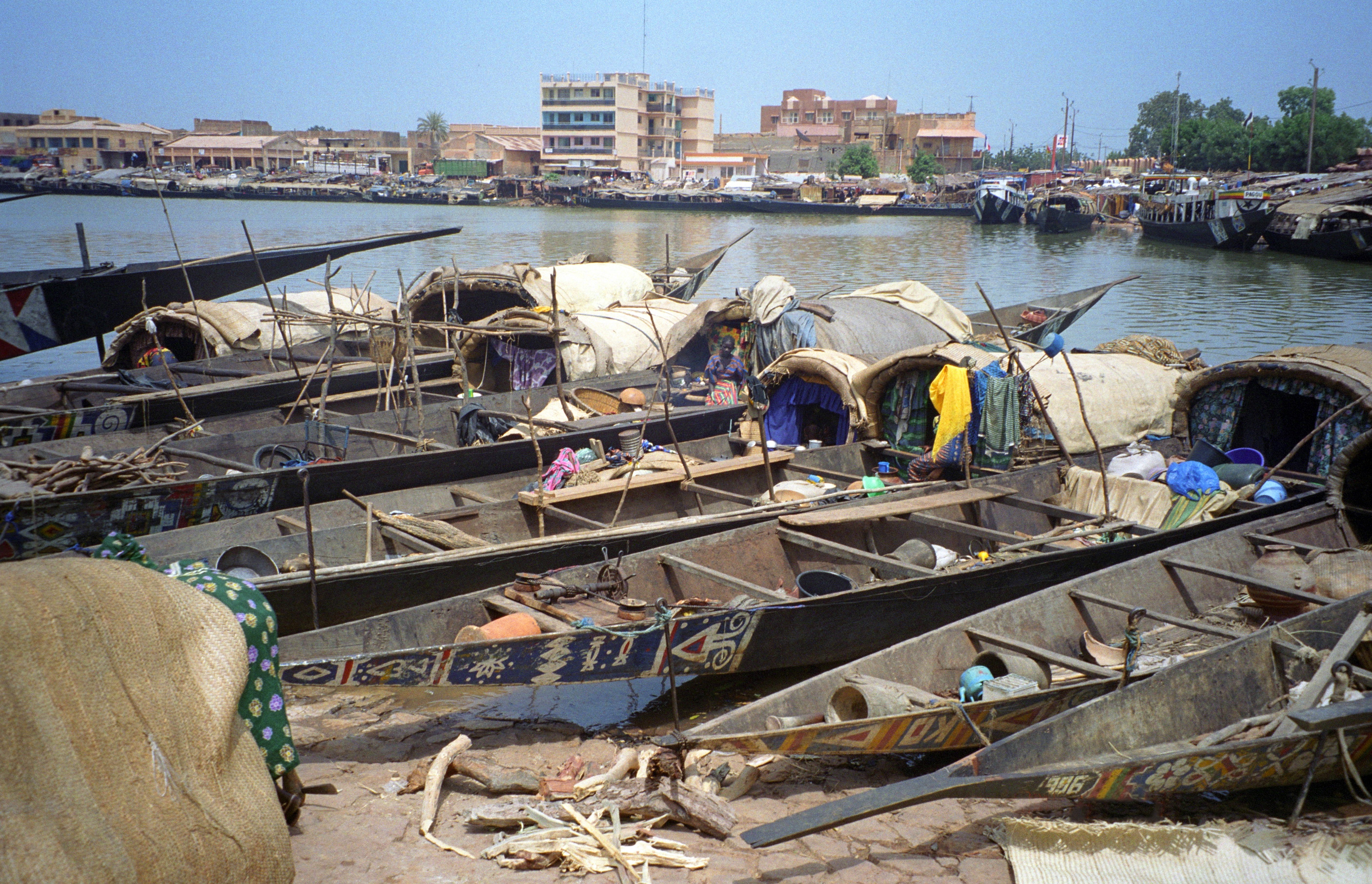 Fishing boats ( pirogue ) docked on the banks of the Bani river, Mopti, Mali